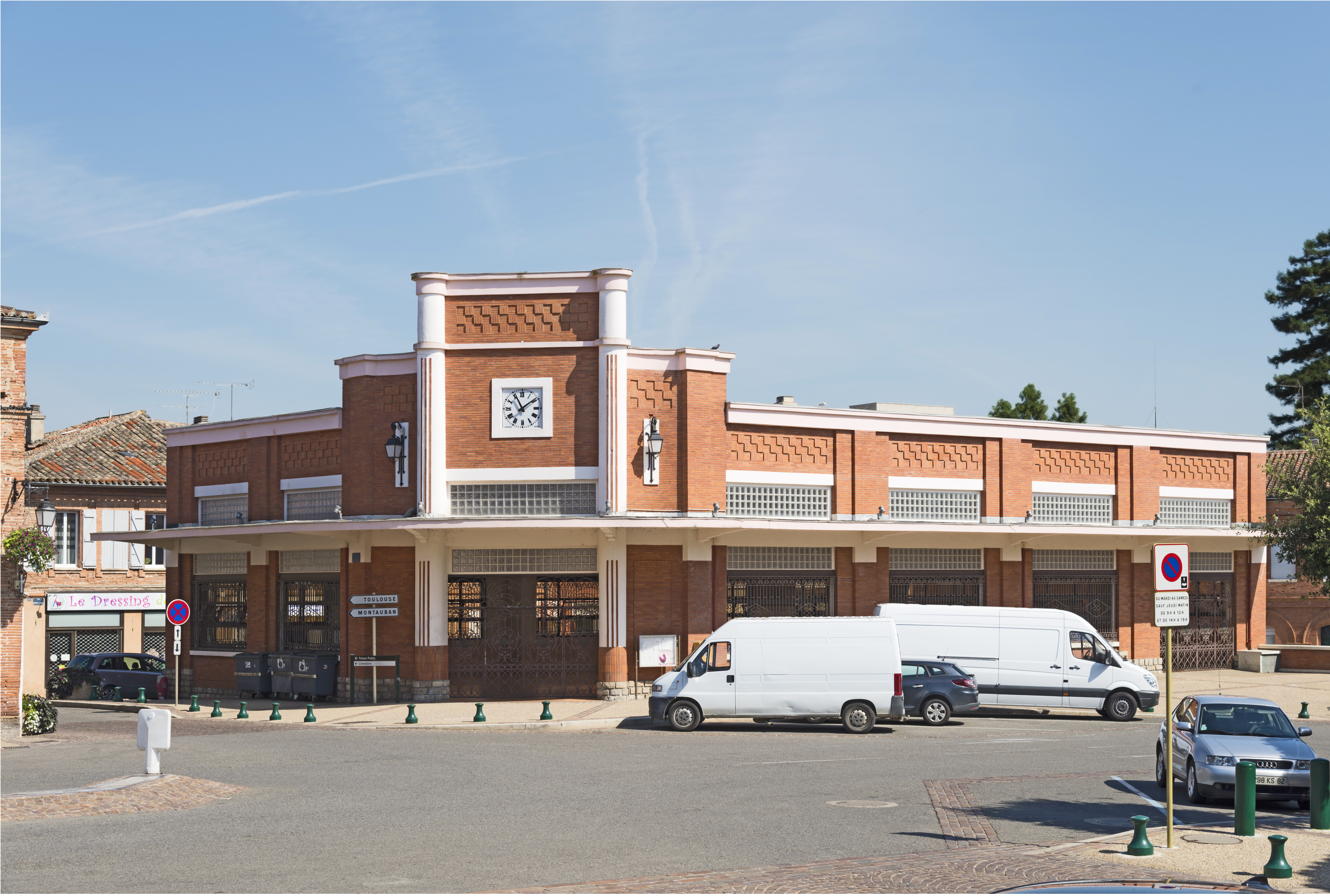 Fronton, Haute-Garonne, France. The Market hall.